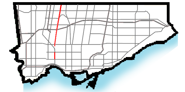 map of Keele Street